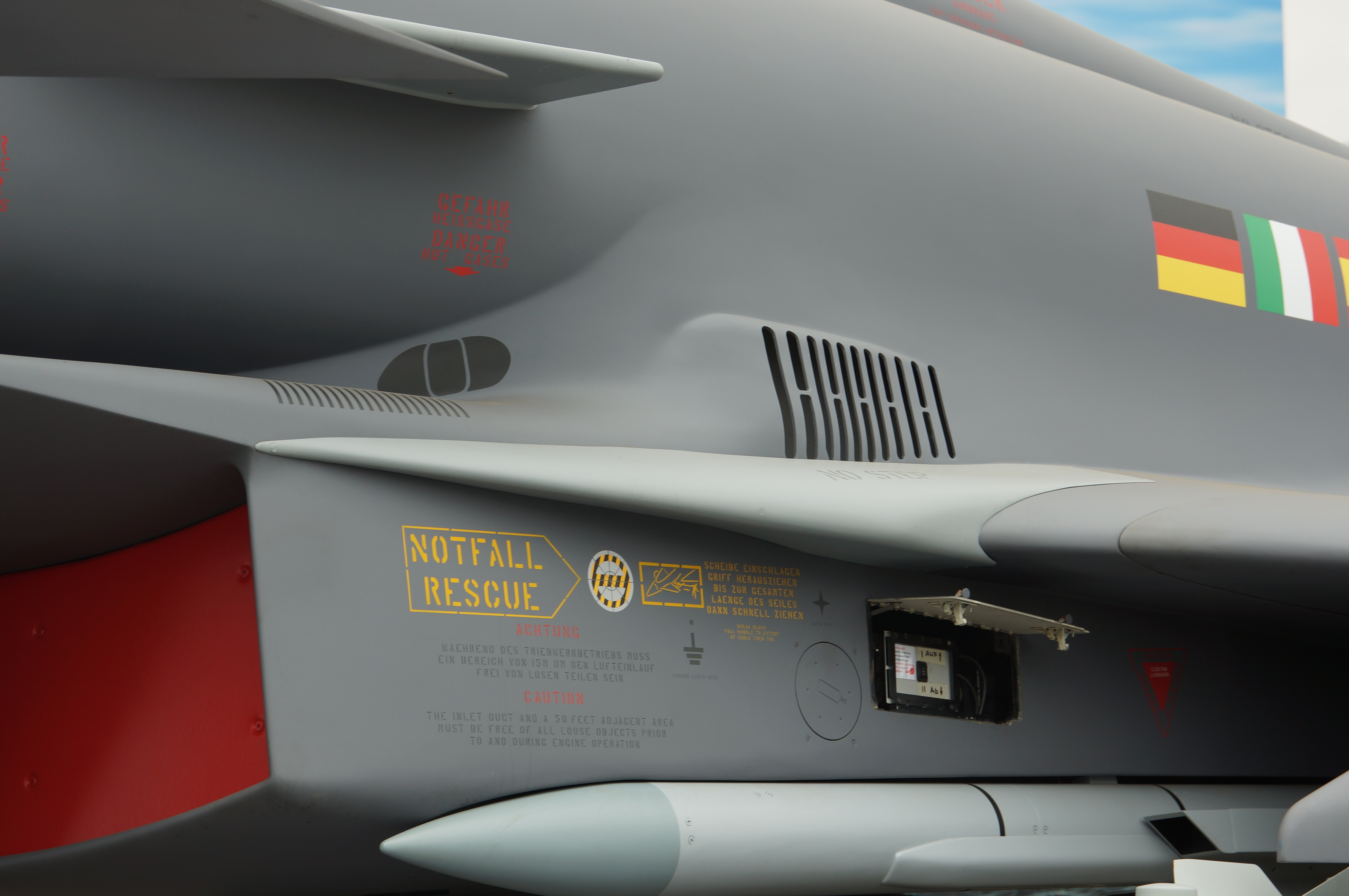 Eurofighter Aerodynamic Modification Kit (AMK) Leading Edge Extension (LEX) upgrade